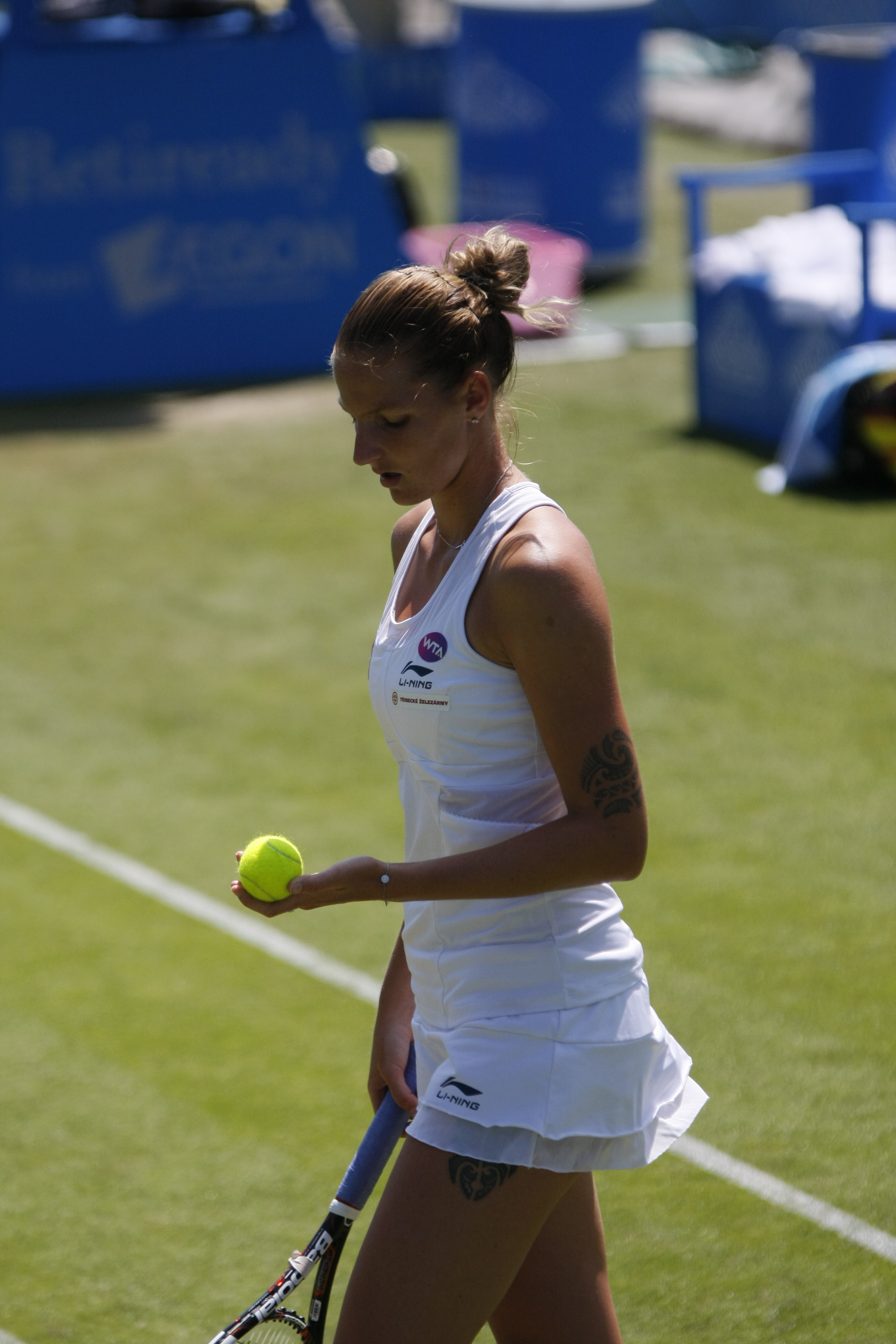 Aegon International Tennis, Devonshire Park, Eastbourne June 2015